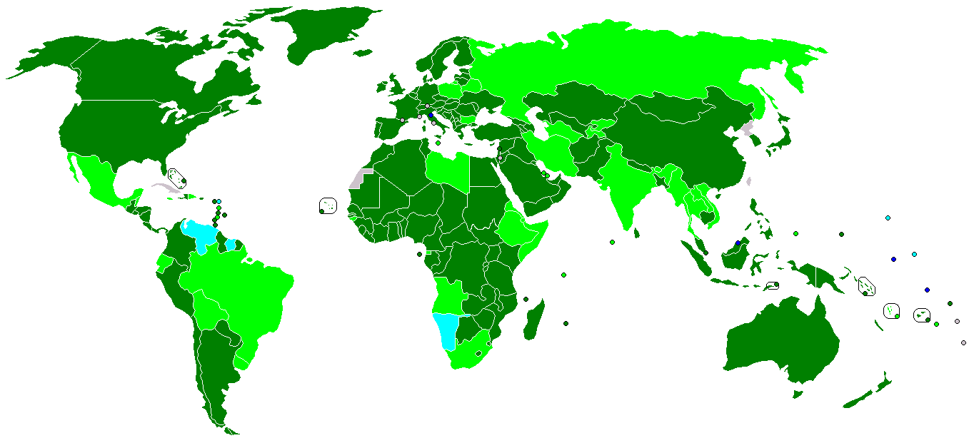 Nations of the World Bank Group-WBG — composed of 5 organizations, with varying members in each. Nations as members of organizations: 5 orgs (in all) — dark green 4 of the orgs — light green 3 of the orgs — light blue 2 of the orgs — dark blue 1 of the orgs — dark lilac (IBRD only)